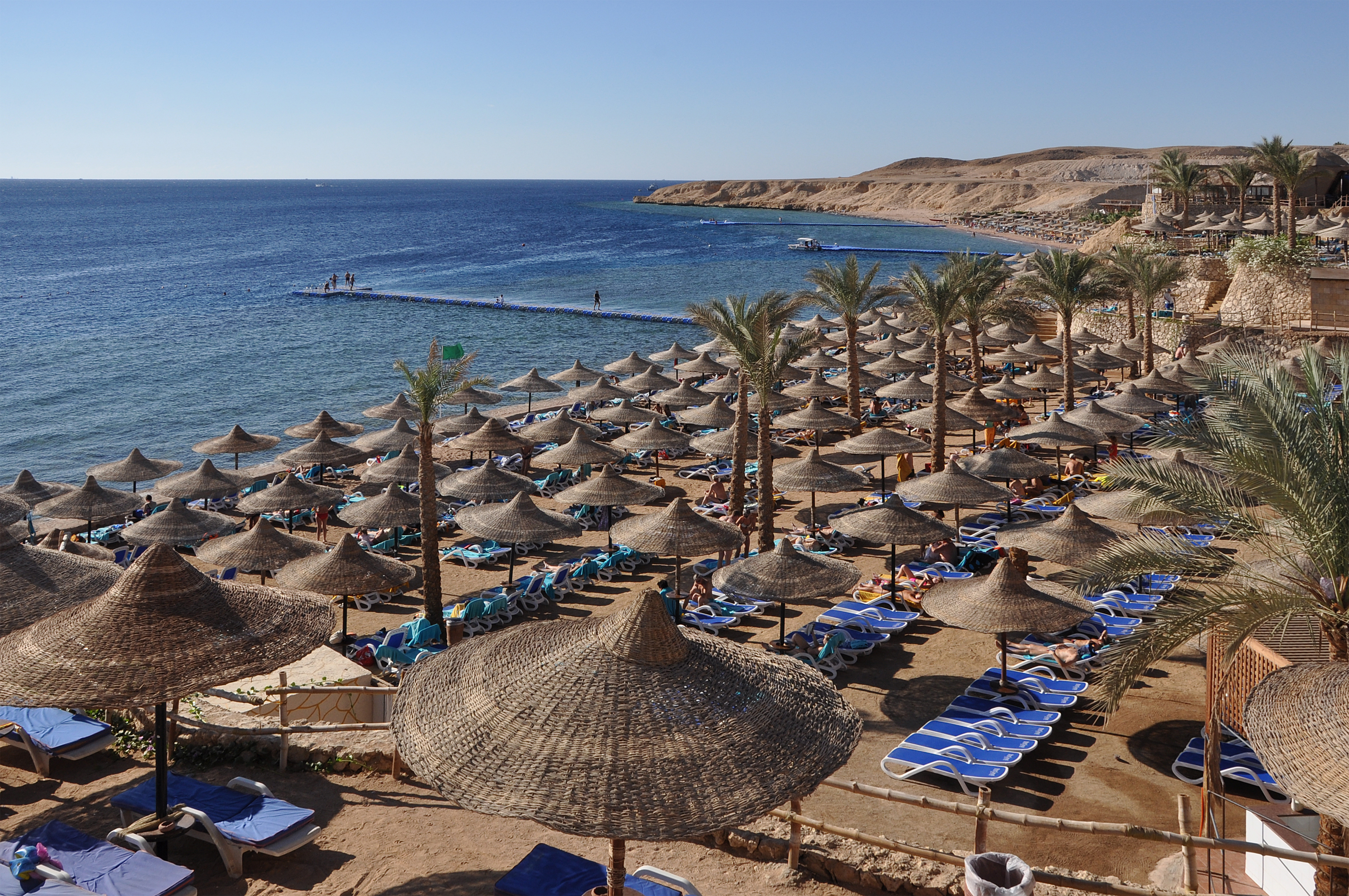 Sharm el Sheikh (Egypt): White Knight Bay